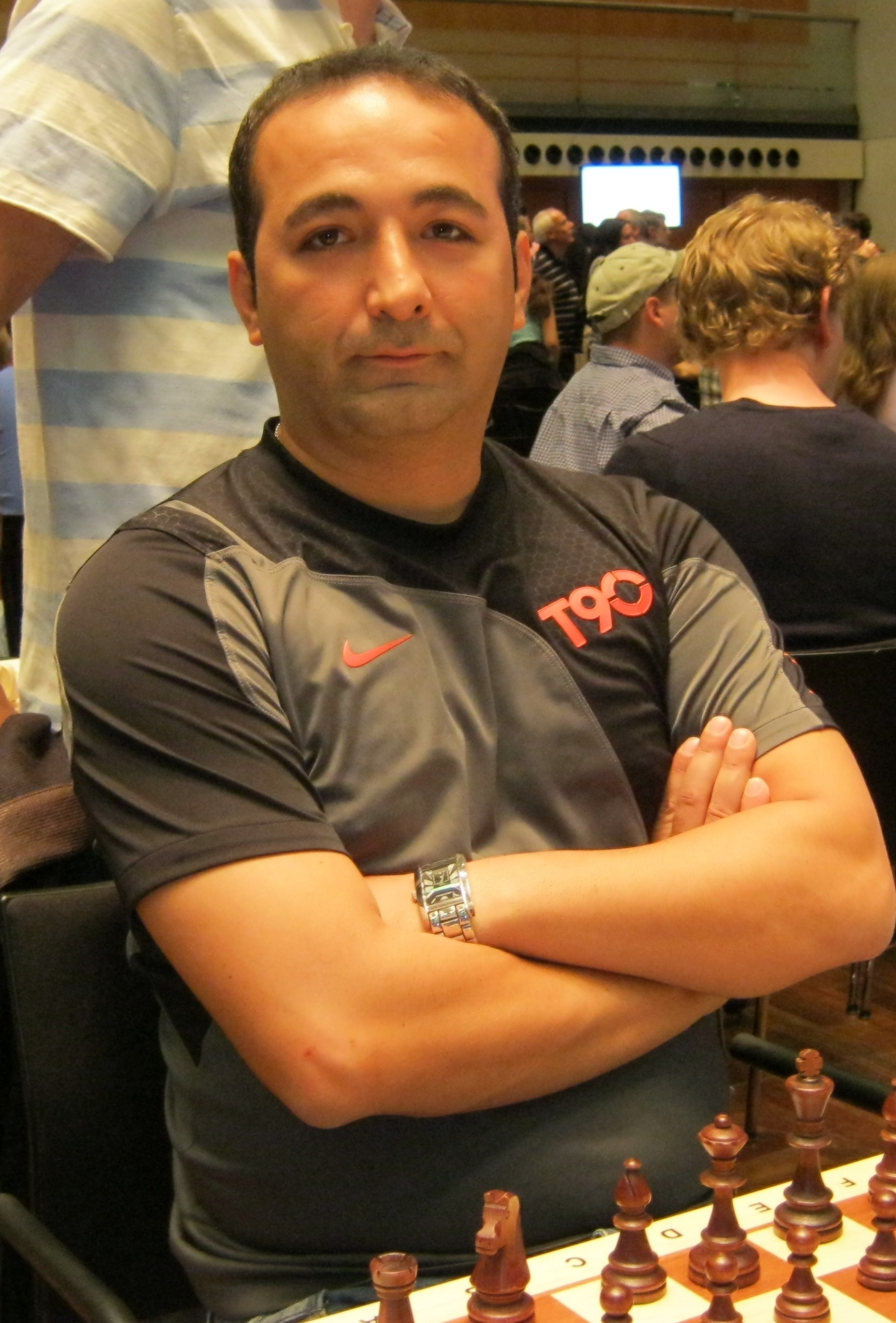 Morteza Mahjoob Zardast, chess grandmaster from Iran